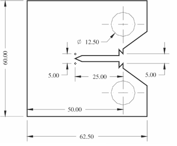 Crack test specimen